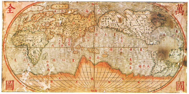 Giulio Aleni's map Wanguo Quantu, 1623, Ambrosiana Library, Milan.